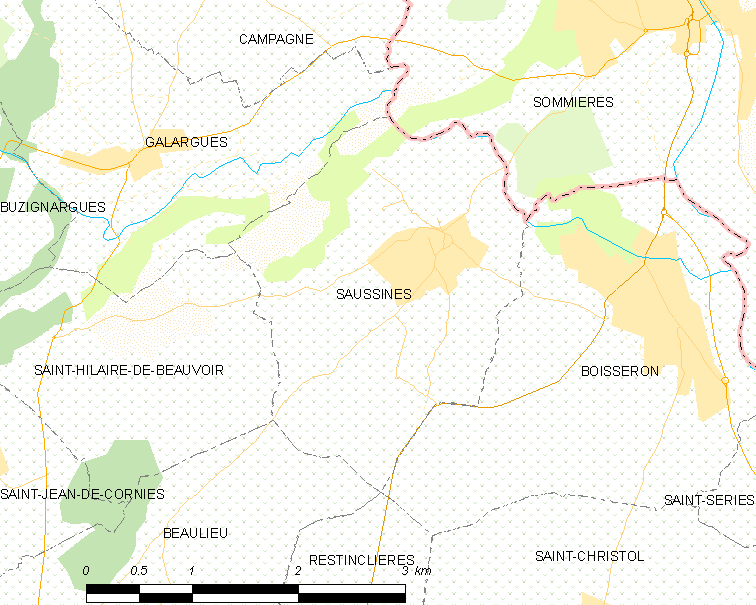 Map commune FR insee code 34296.png - Saussines